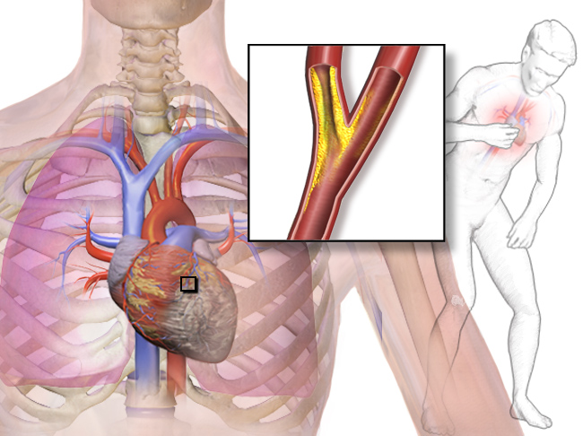 Angina. See a related animation of this medical topic.